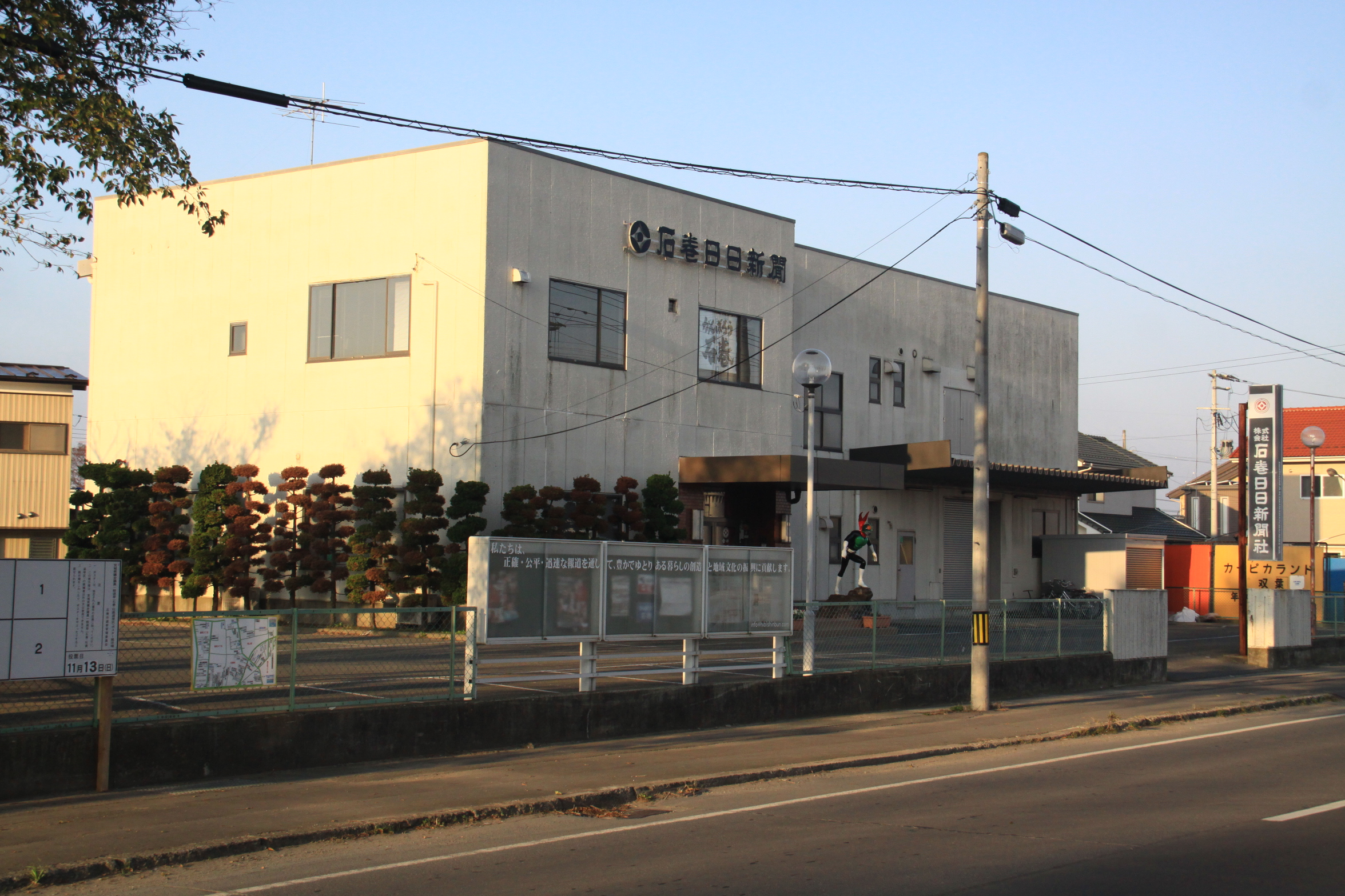 Ishinomaki-hibishinbun Office building in Ishinomaki, Miyagi, Japan. This company is local newspapers in Ishinomaki area. They was attacked by Tsunami and suffered serious damage on March 11, 2011. However, they published the newspaper in handwriting.